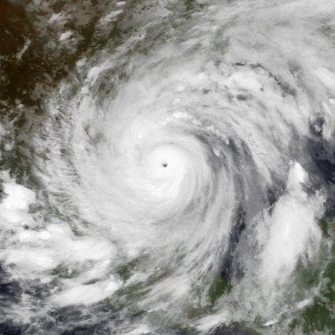 Hurricane Alex making landfall on Mexico at peak intensity on July 1